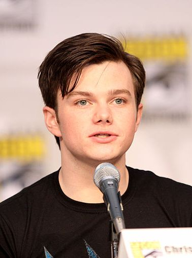 Actor Chris Colfer on the Glee panel at the 2010 San Diego Comic Con in San Diego, California.